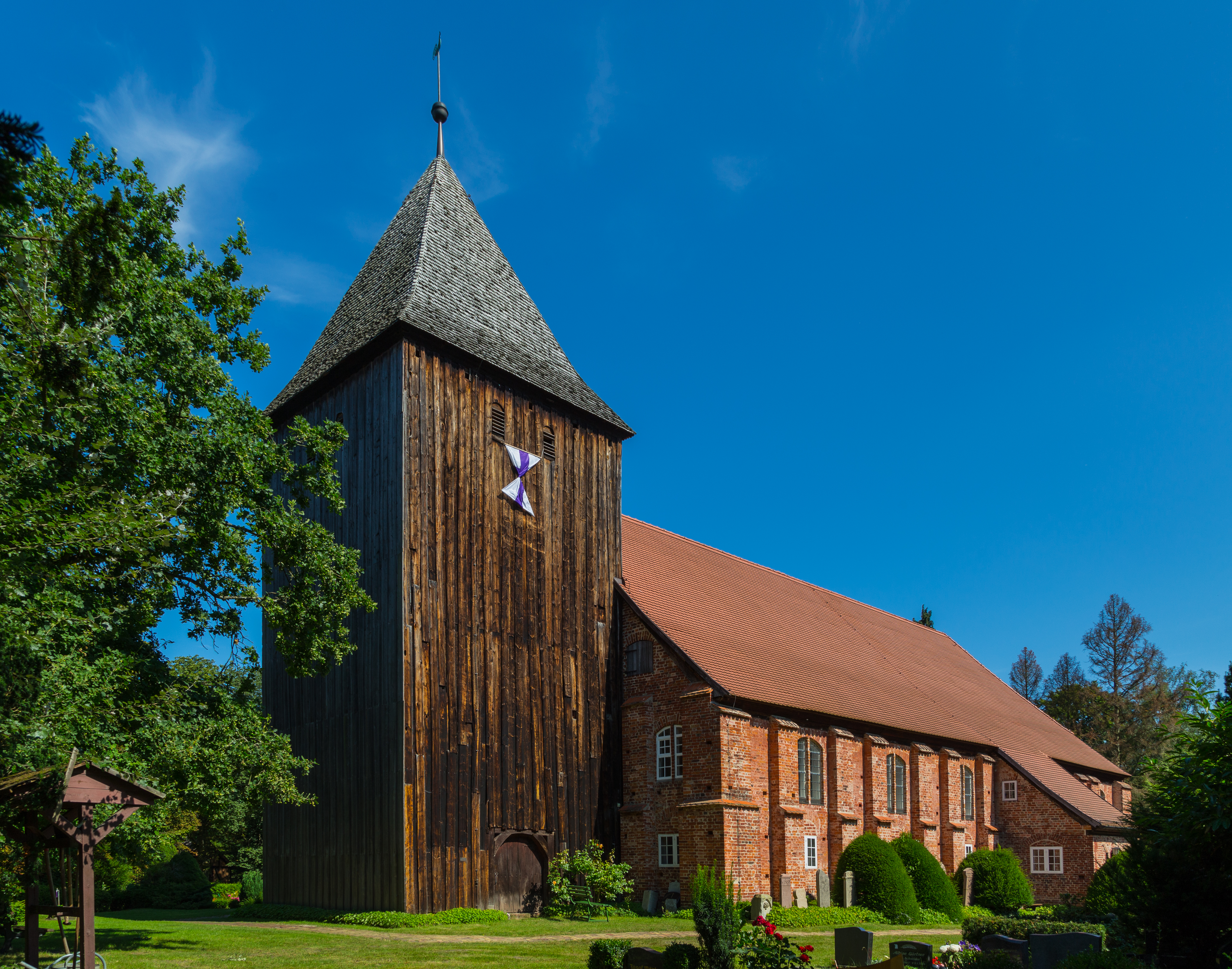 The Protestant Seamen's Church (Seemannskirche) in Prerow, Landkreis Vorpommern-Rügen, Mecklenburg-Vorpommern, Germany.